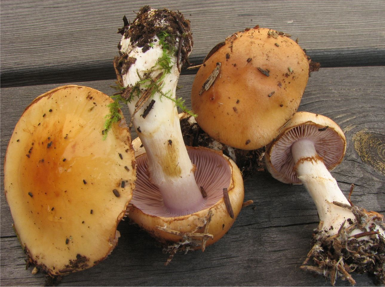 Cortinarius varius from Gotland, Sweden